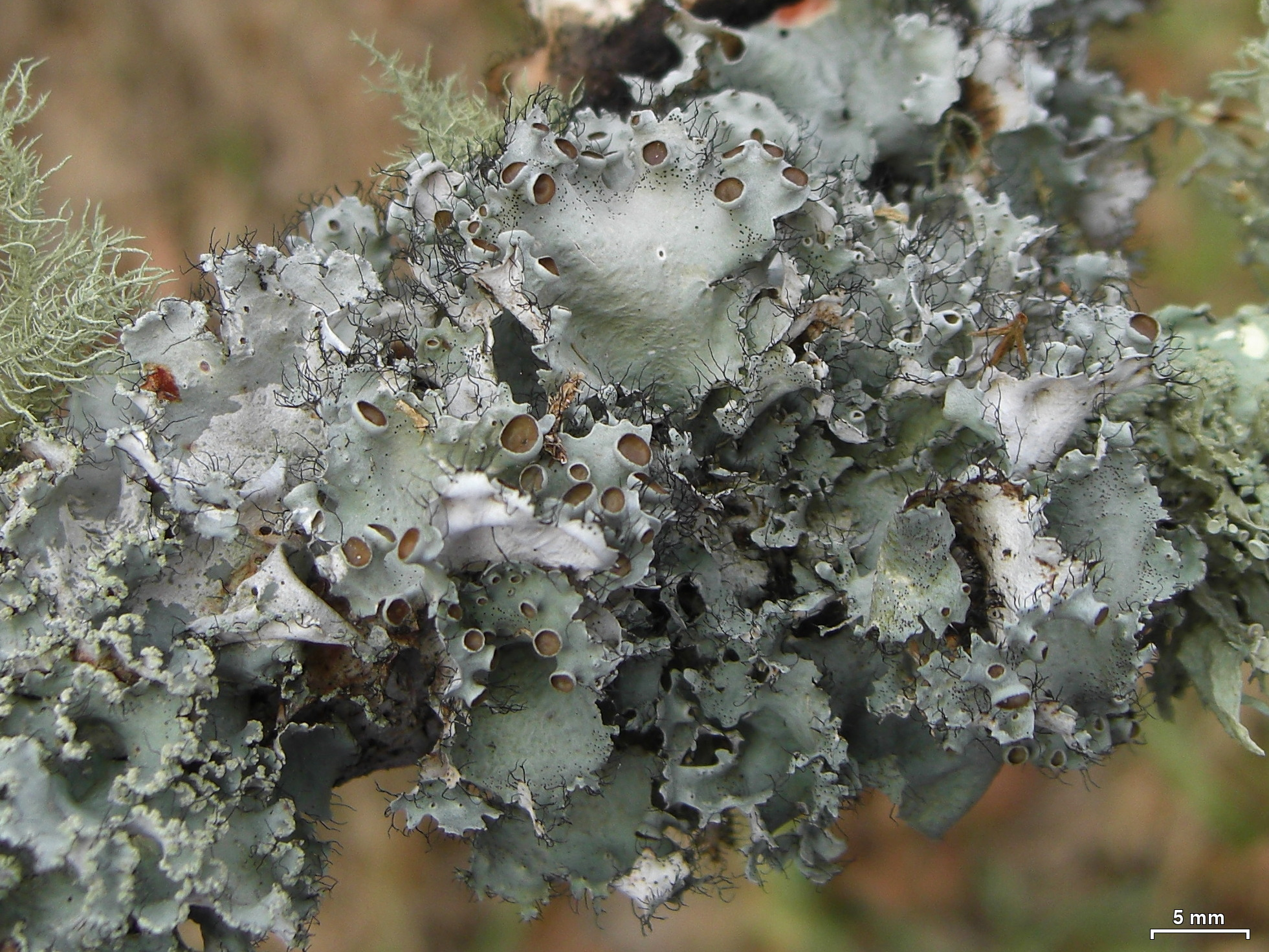 Wicomico and Worchester Counties, Delmarva, 20131128-1130